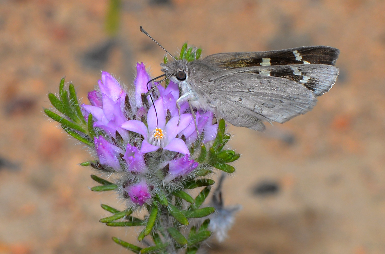 Mesodina cyanophracta The butterfly was feeding on Philotheca nodiflora subsp. latericola flowers. Photo: Fred